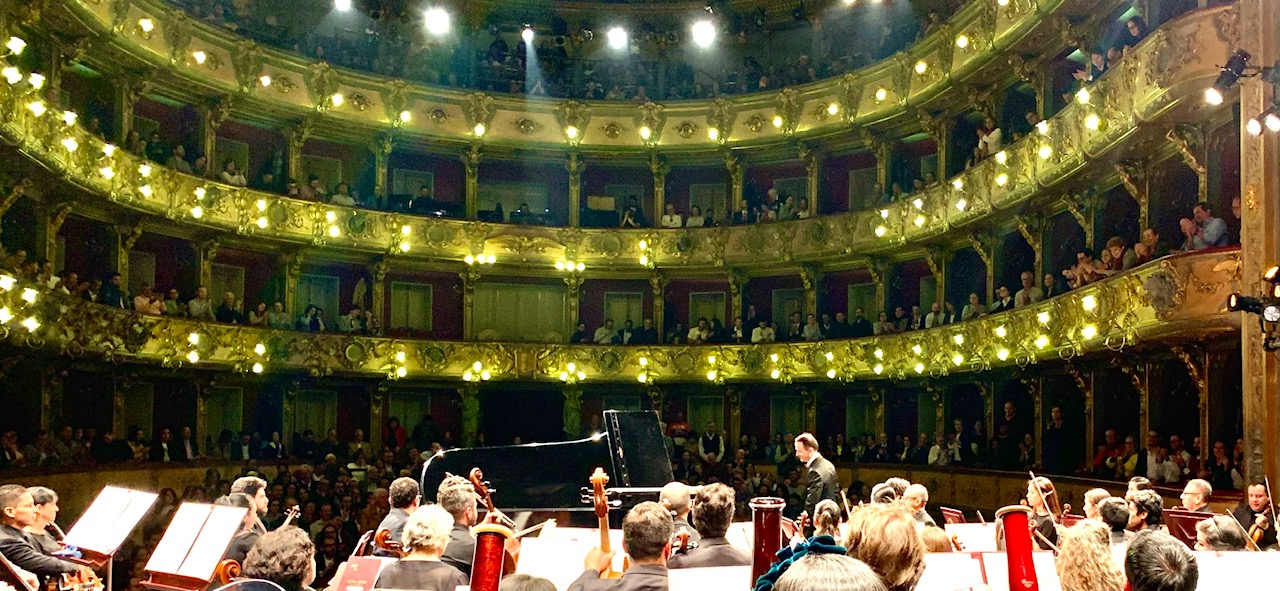 Giorgi Latso in Teatro Colón, Bogota perfroming with Colombian Symphony Orchestra